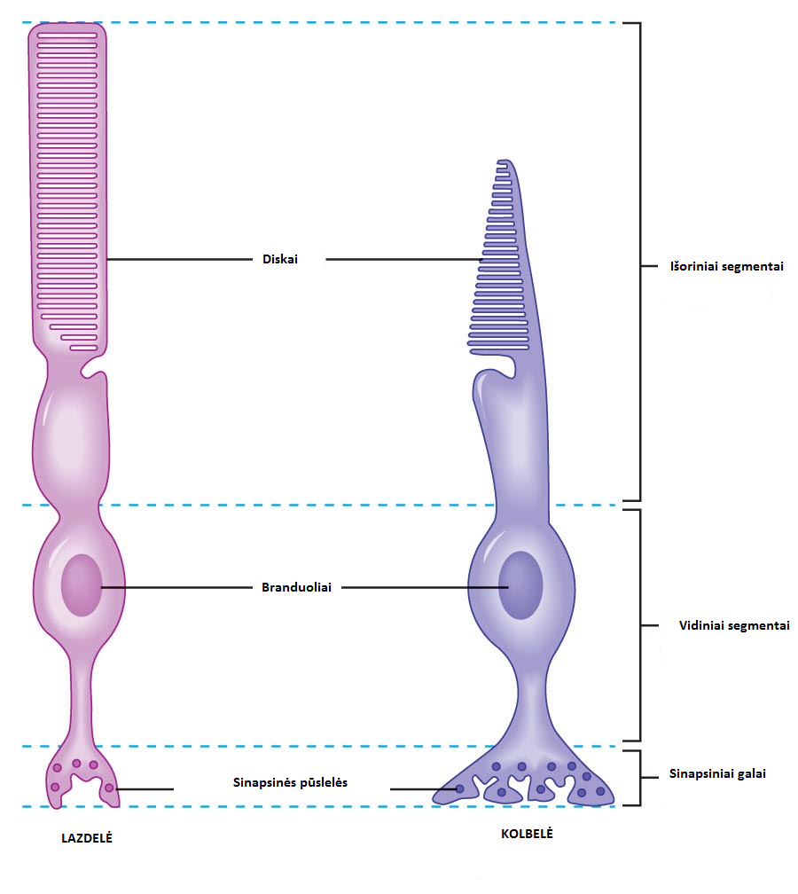 Receptors which are found in the eye (lithuanian)